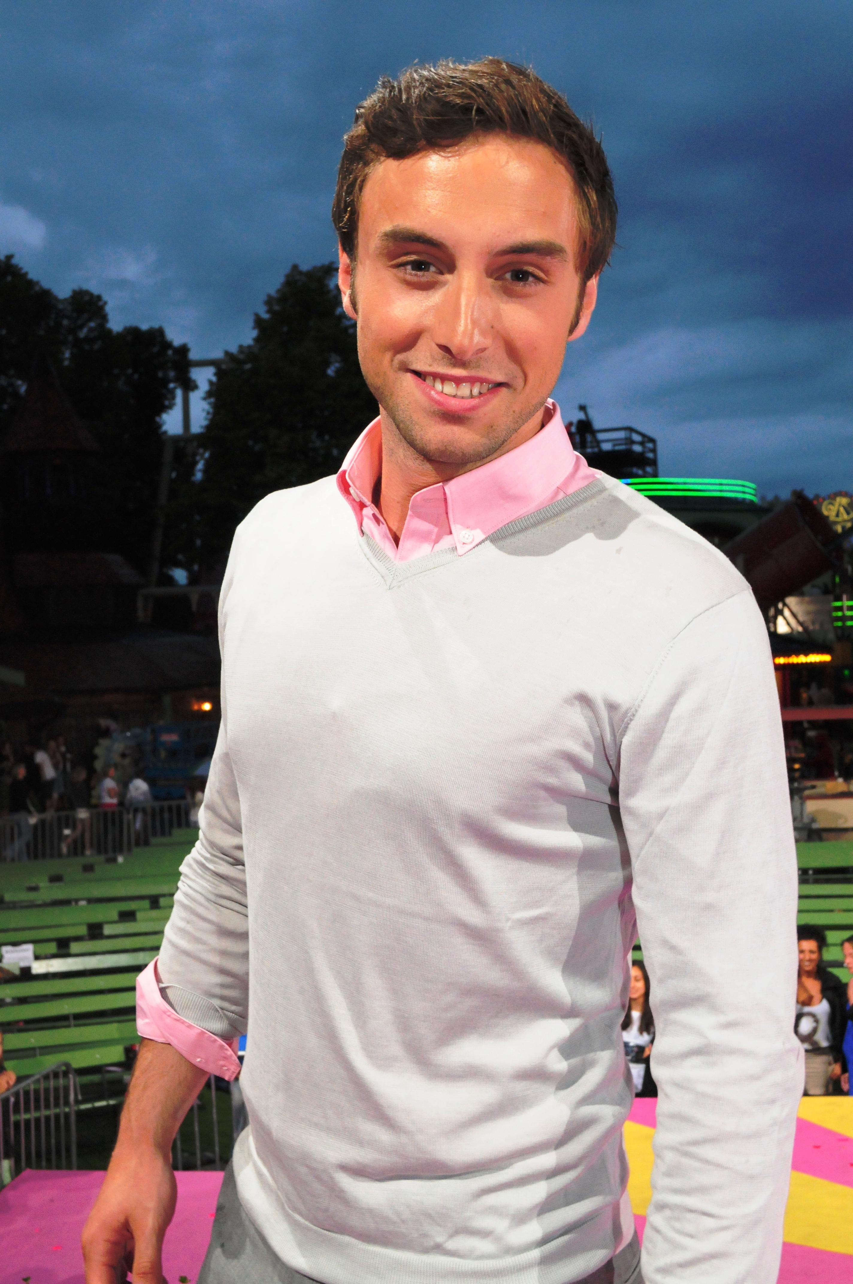 Måns Zelmerlöw at Sommarkrysset